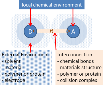 Electron transfer between two redox centres